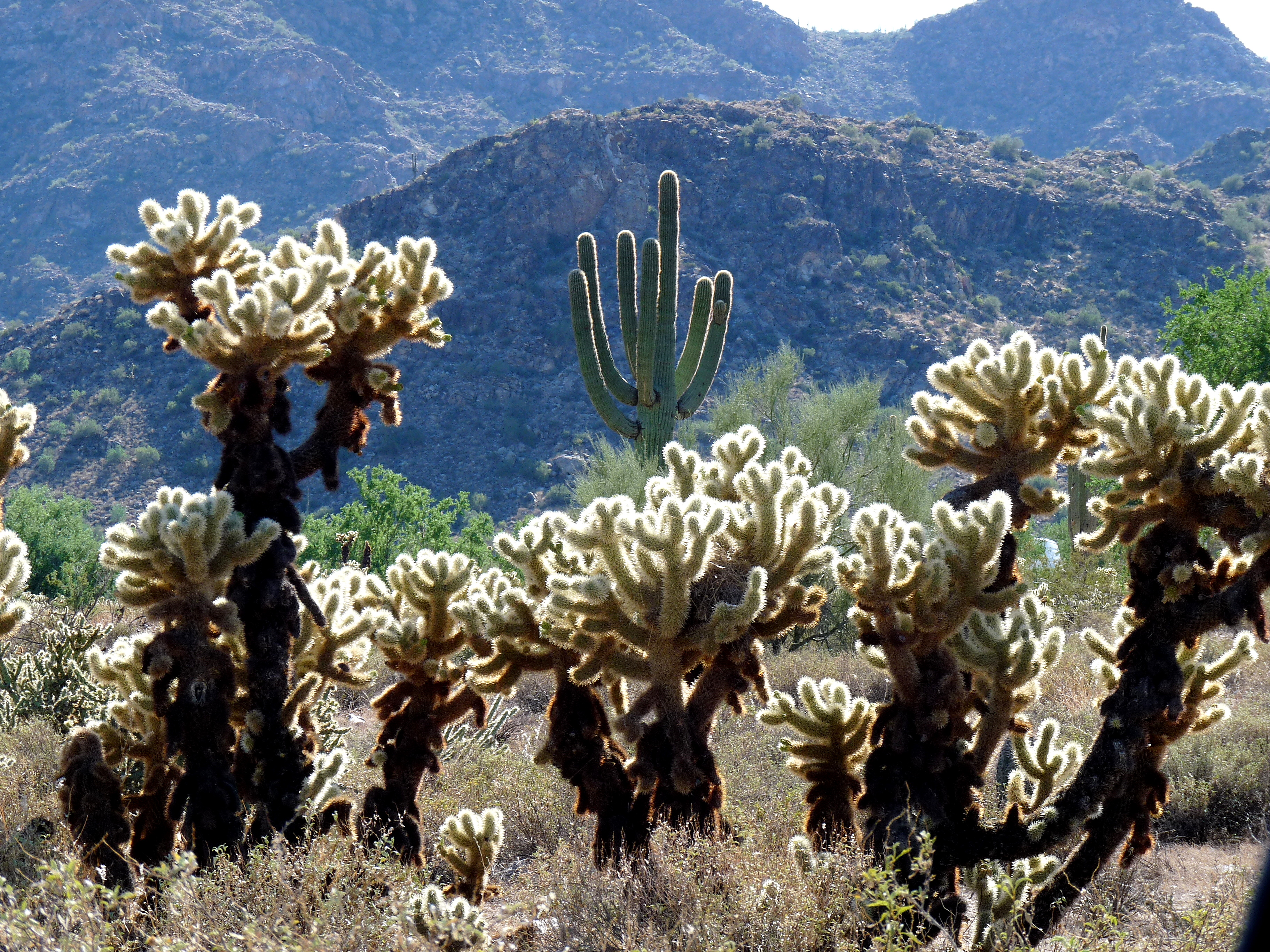 The image represents typical Sonoran Desert plants in the White Tank Mountain Regional Park